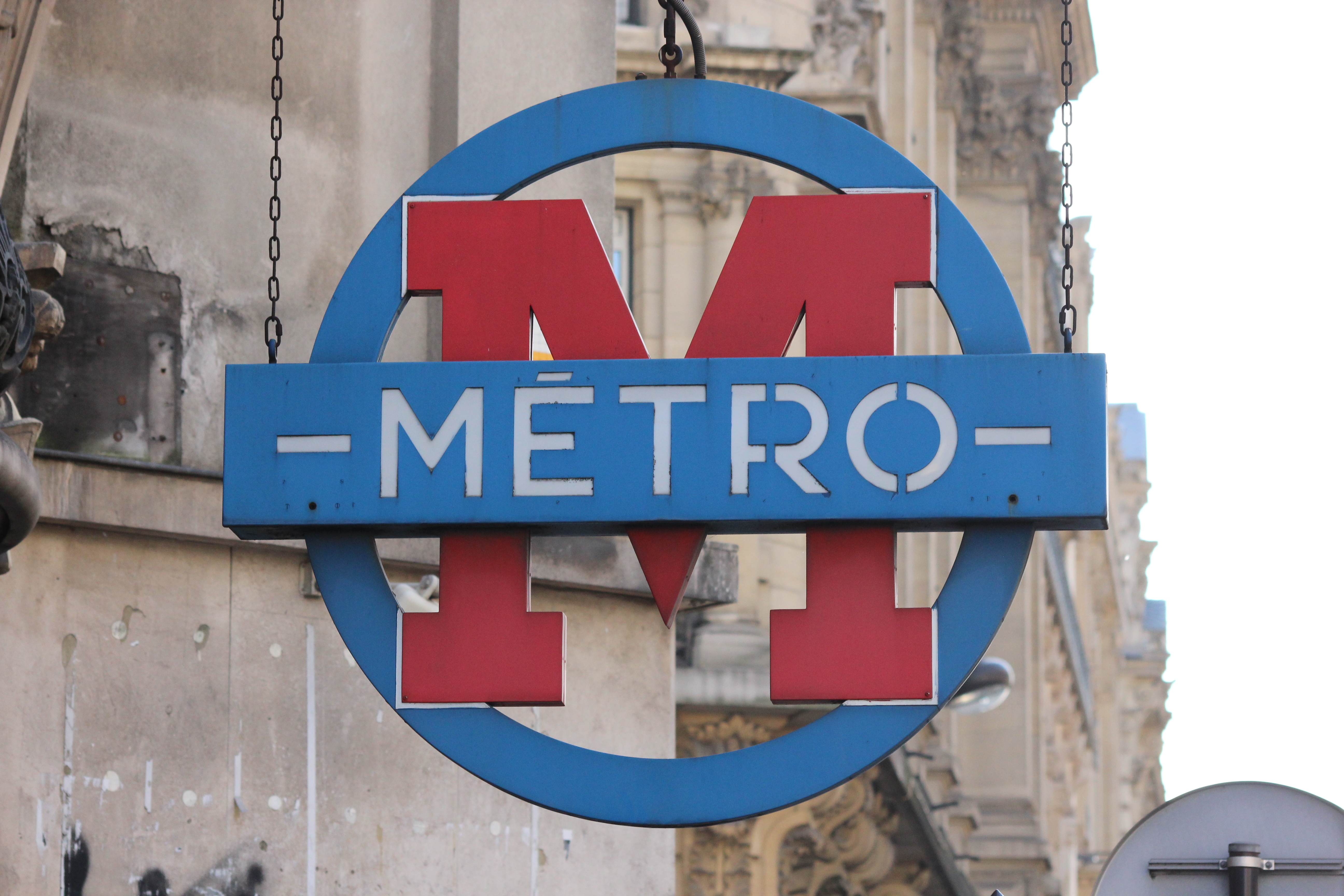 Signal of the entrance to the Sentier metro station at 97 Réaumur street in Paris, France.